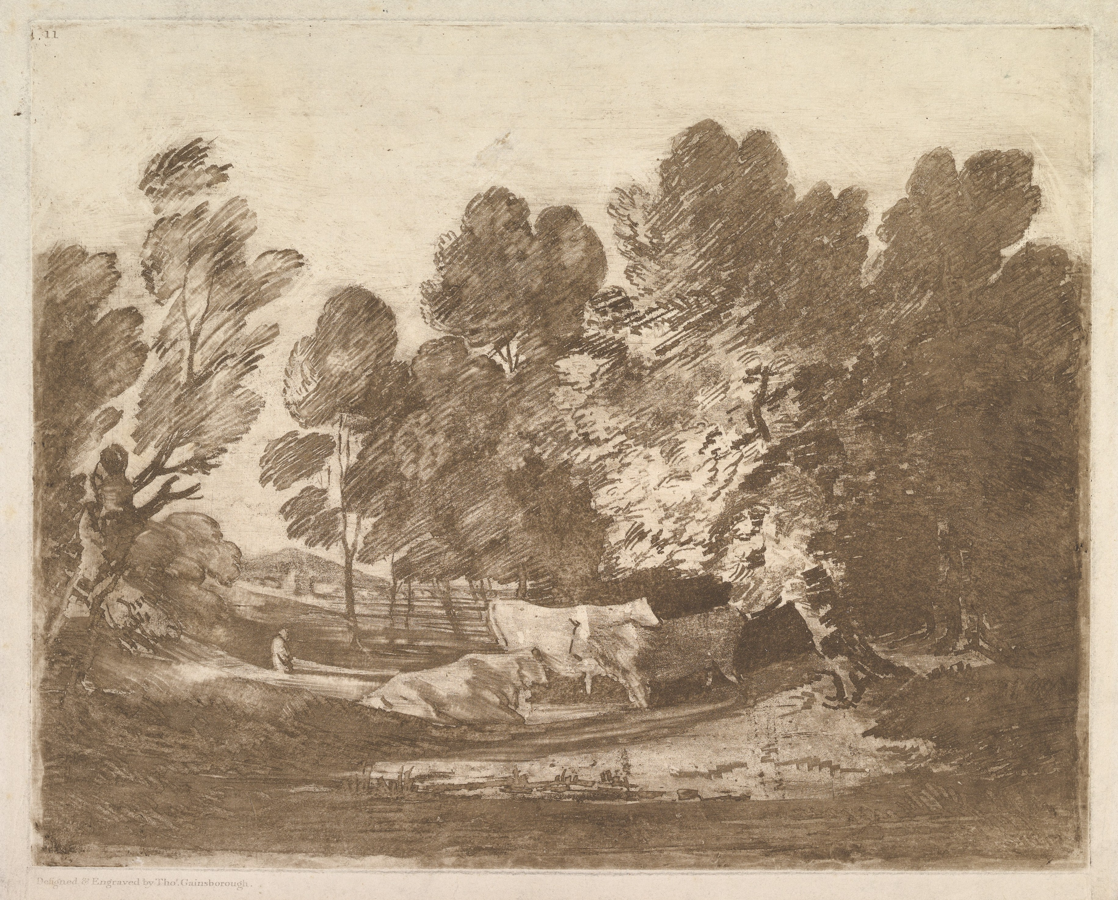 Print; Prints